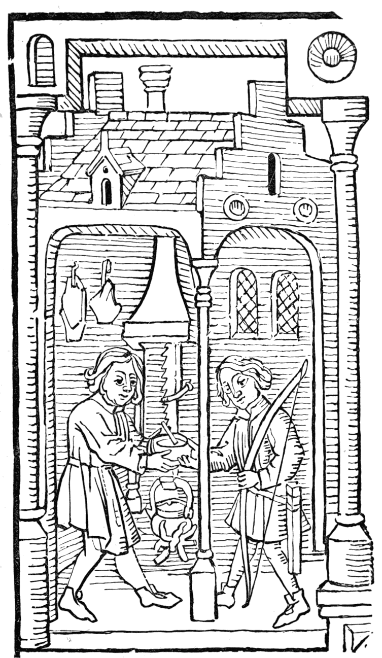 Biblia Pauperum. Jacob and Esau.